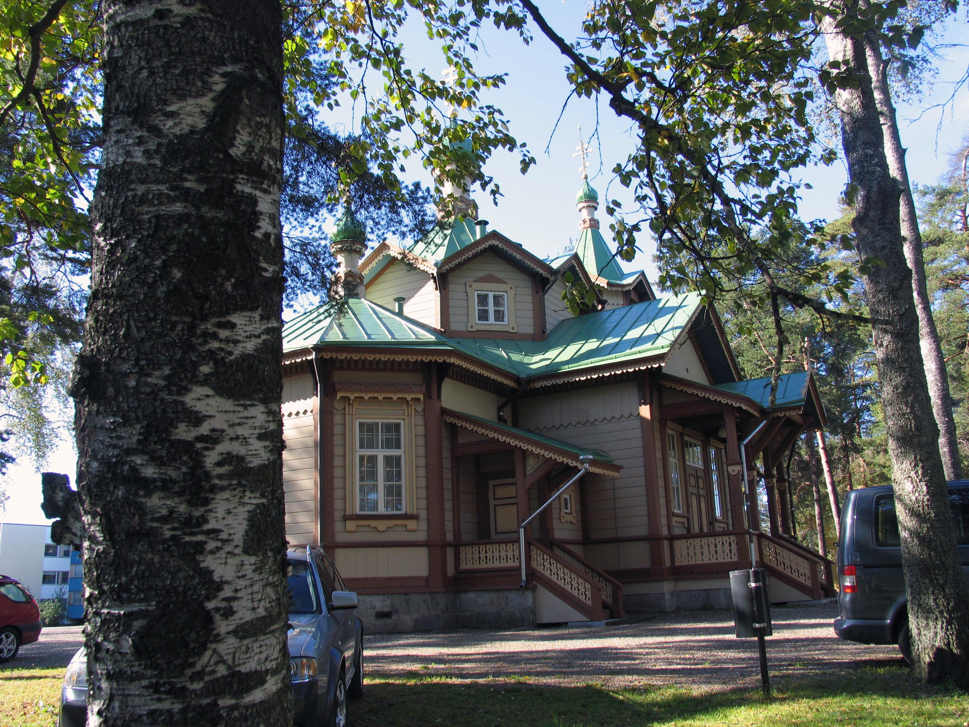 Ristinpuisto park in Joensuu